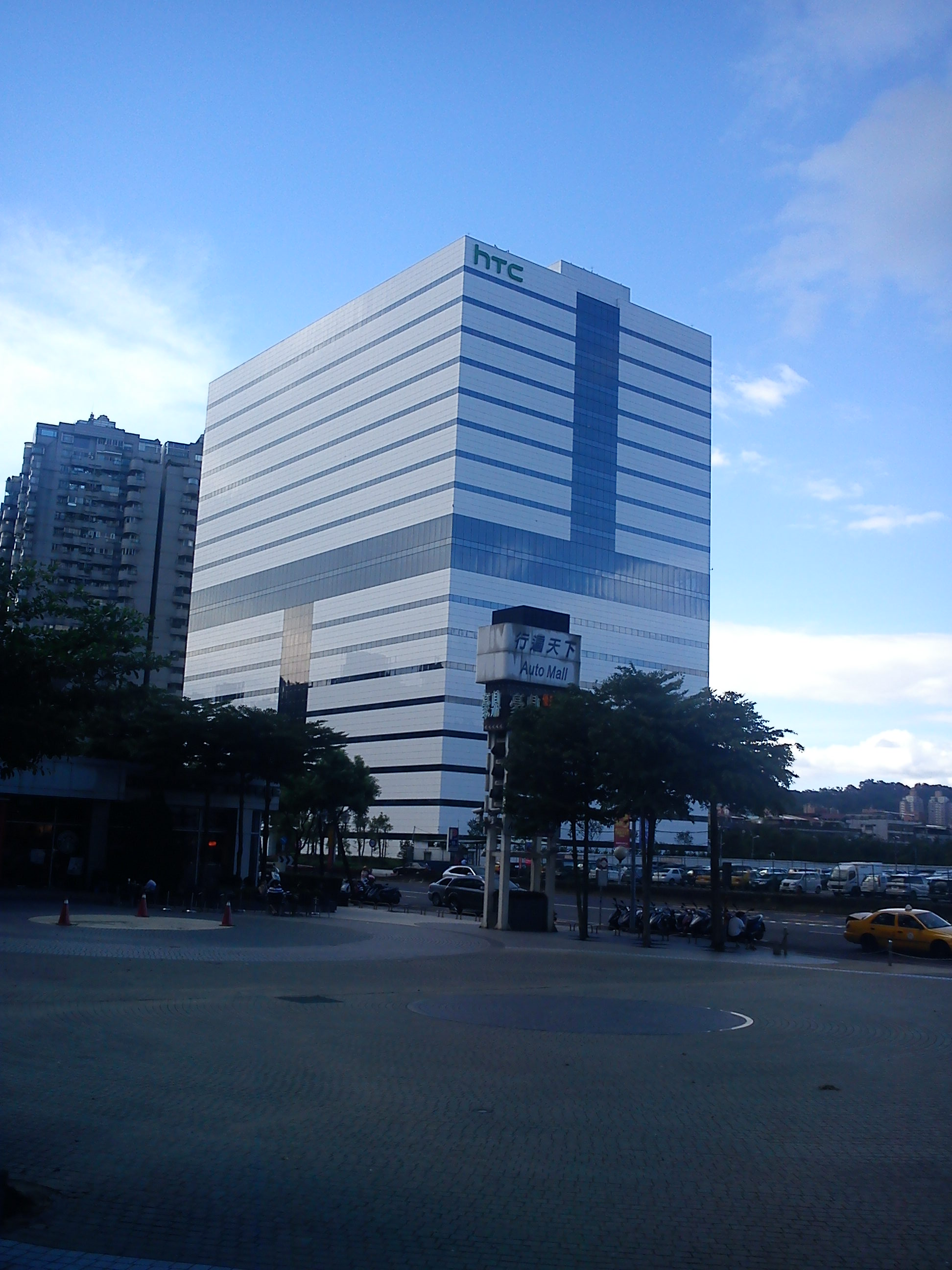 HTC Corp. headquarters in Xindian, New Taipei City, Taiwan.